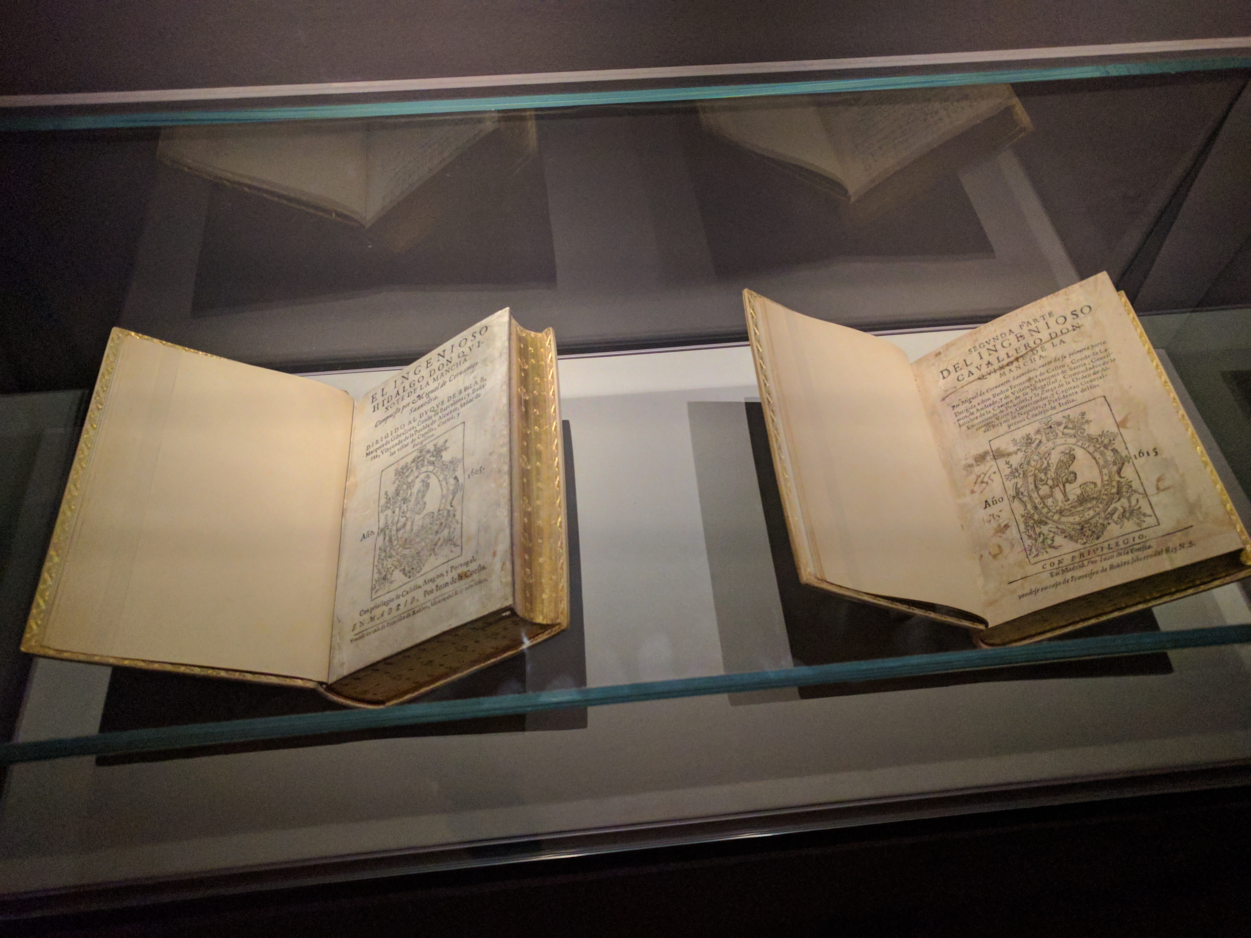 Second printing of the first edition of Don Quixote and first edition of the second part of El Quixote. Prado Museum, private collection.